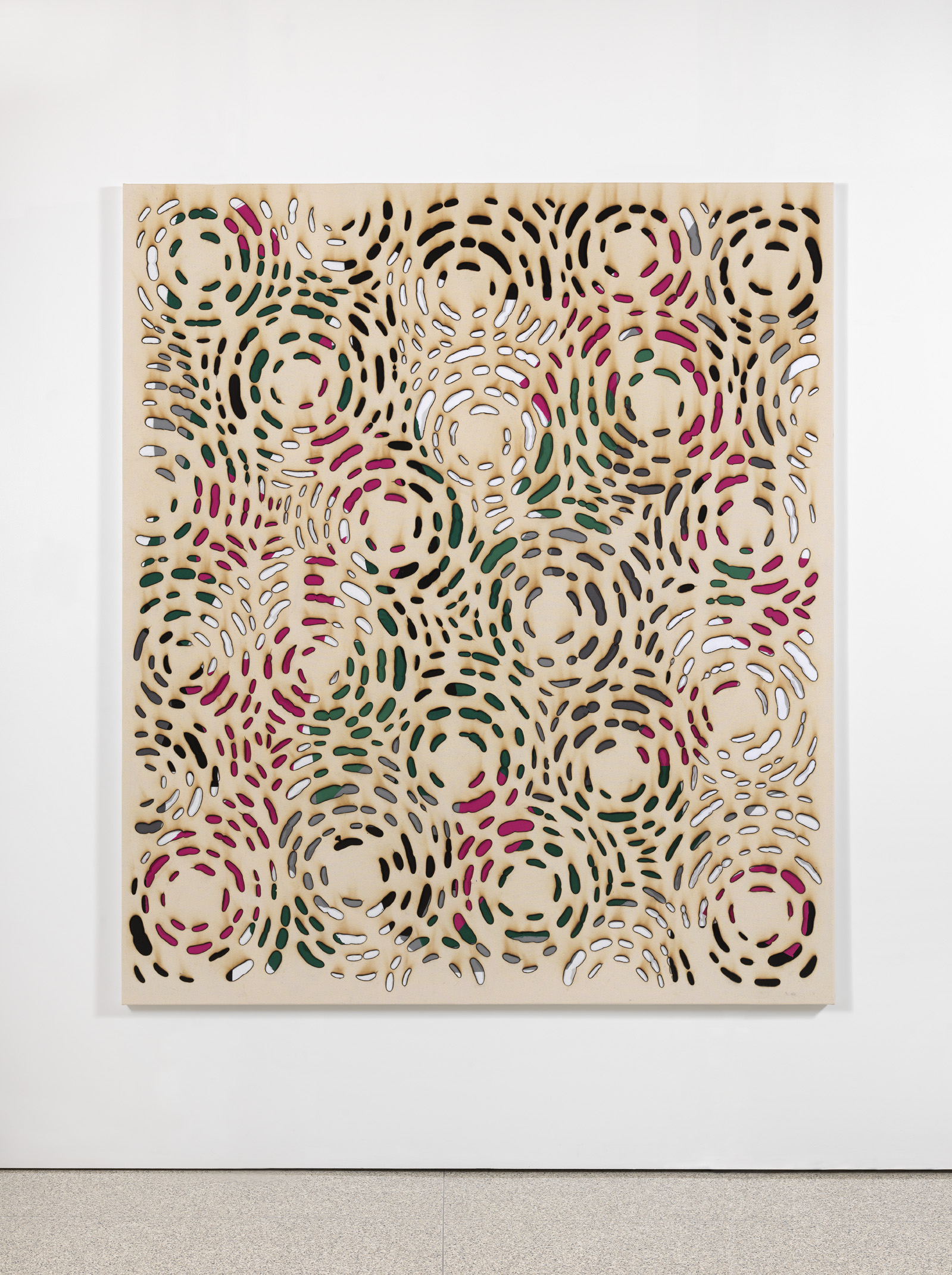 "Lost Horizon" Burns on canvas with fabric, 85" x 75" 2015